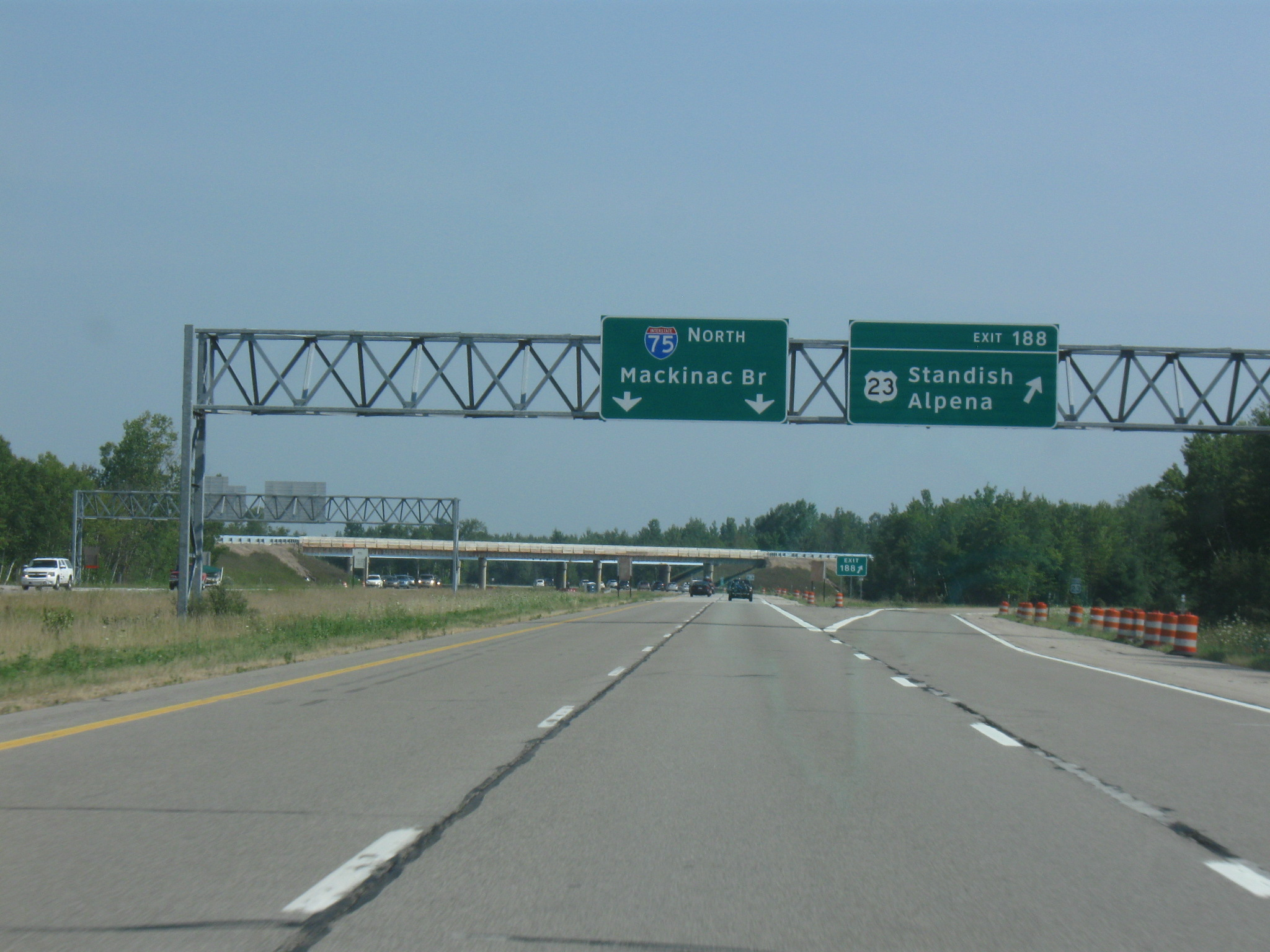 I-75 northbound at exit 188 for U.S. Route 23 in Lincoln Township, Arenac County, Michigan.